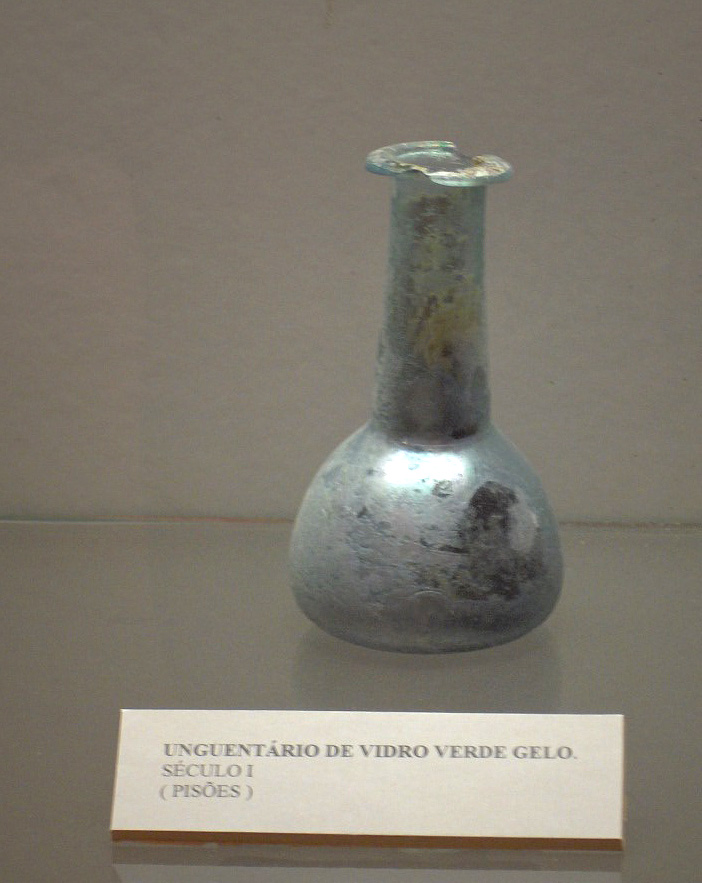 lacrymatory in green glass (1st c.); Museu da Reinha D. Leonor; Beja, Portugal